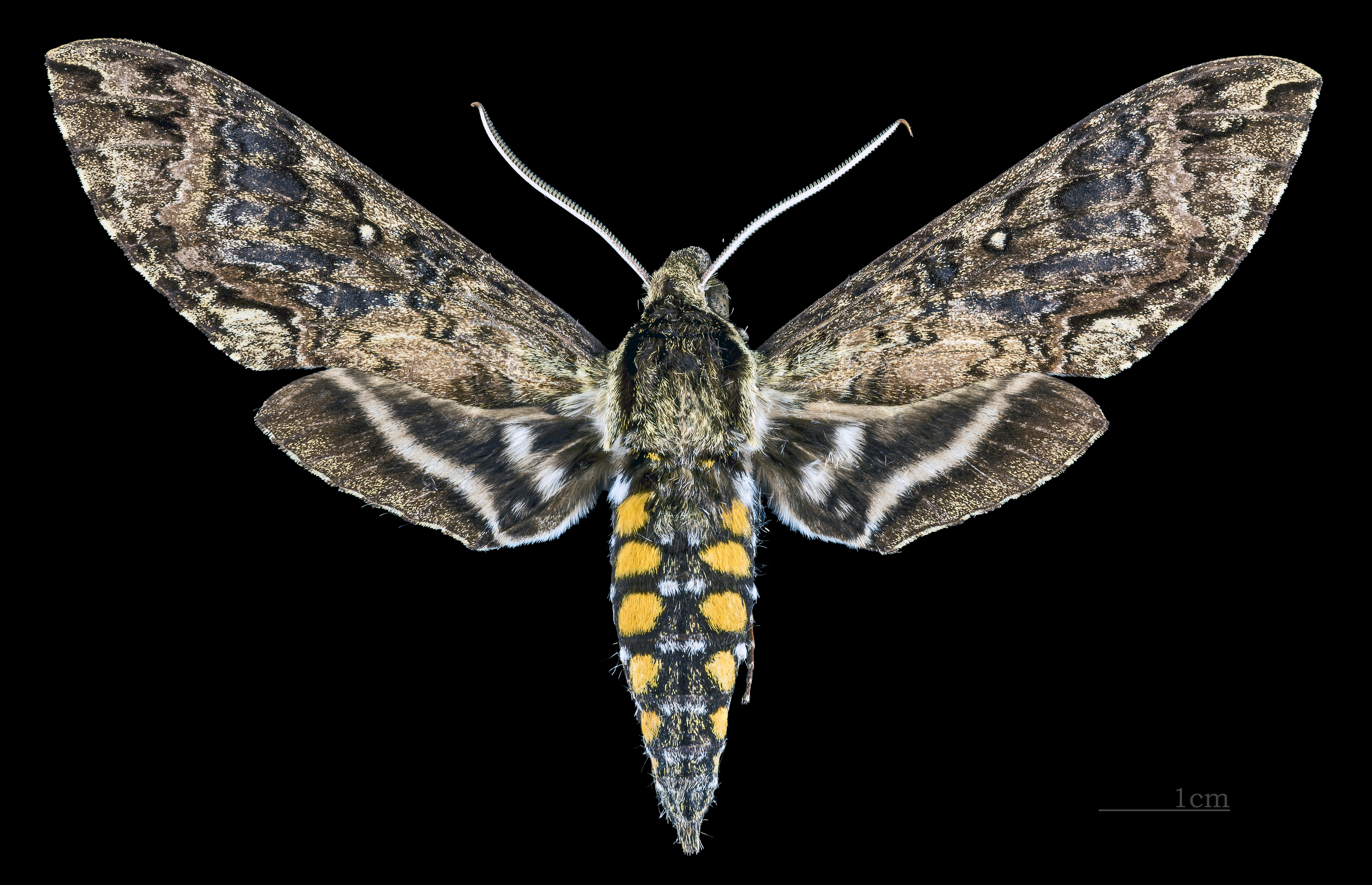 Manduca scutata - Dorsal side Collection of the Mathematician Laurent Schwartz